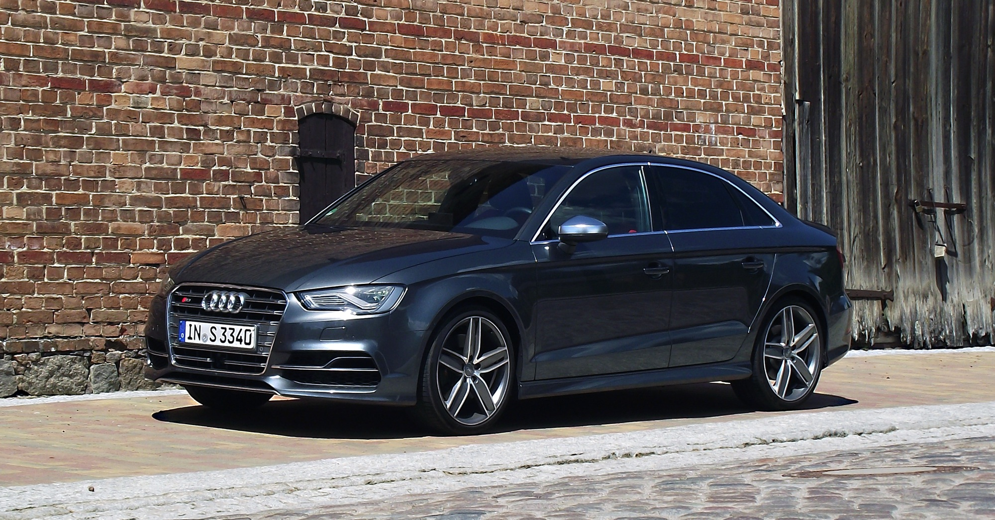 Audi S3 Sedan 2.0 TFSI quattro